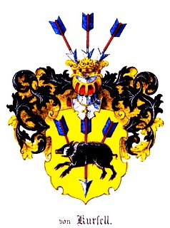 Coat of arms of the von Kursell family.